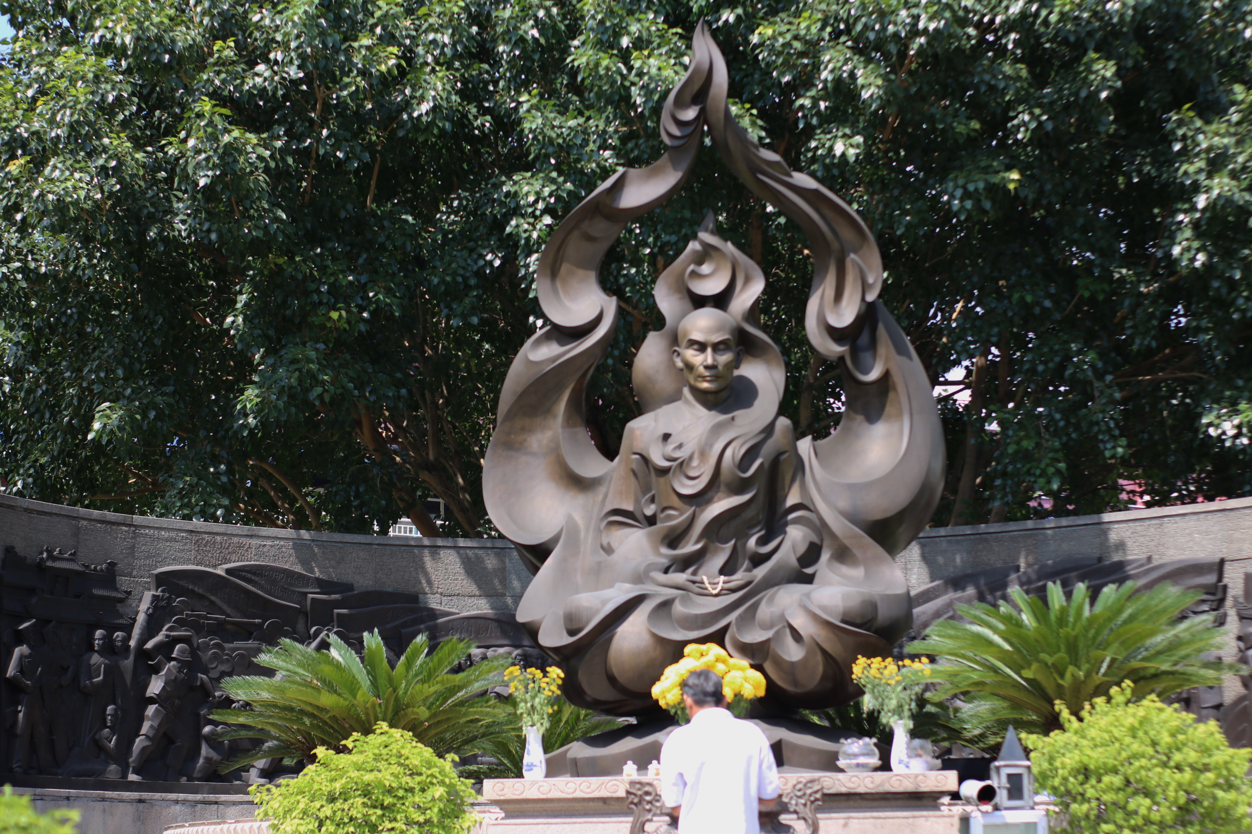 Thich Quang Duc